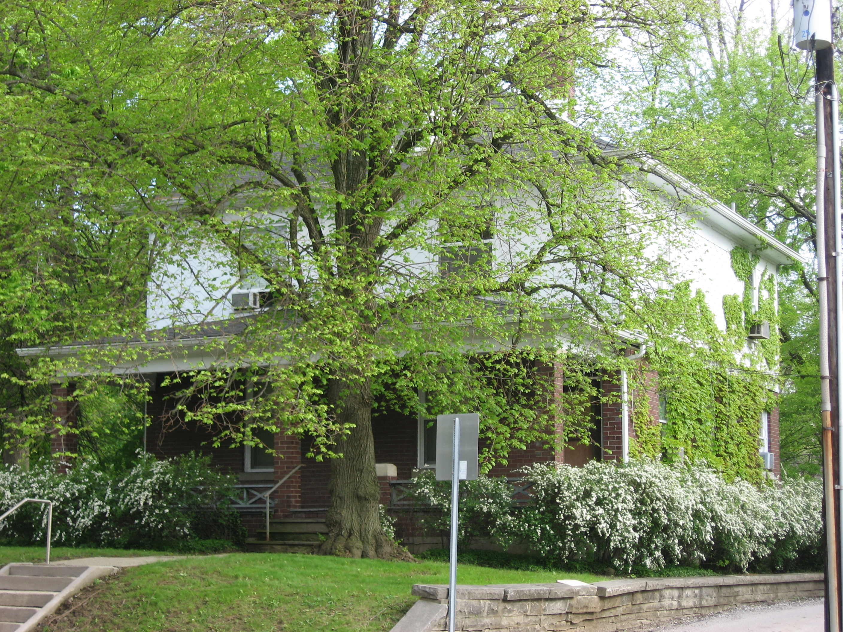 Front and eastern side of the offices of The American Historical Review, located at 914 E. Atwater Avenue in Bloomington, Indiana, United States. Built in 1916, it is part of the locally-designated Elm Heights Historic District.